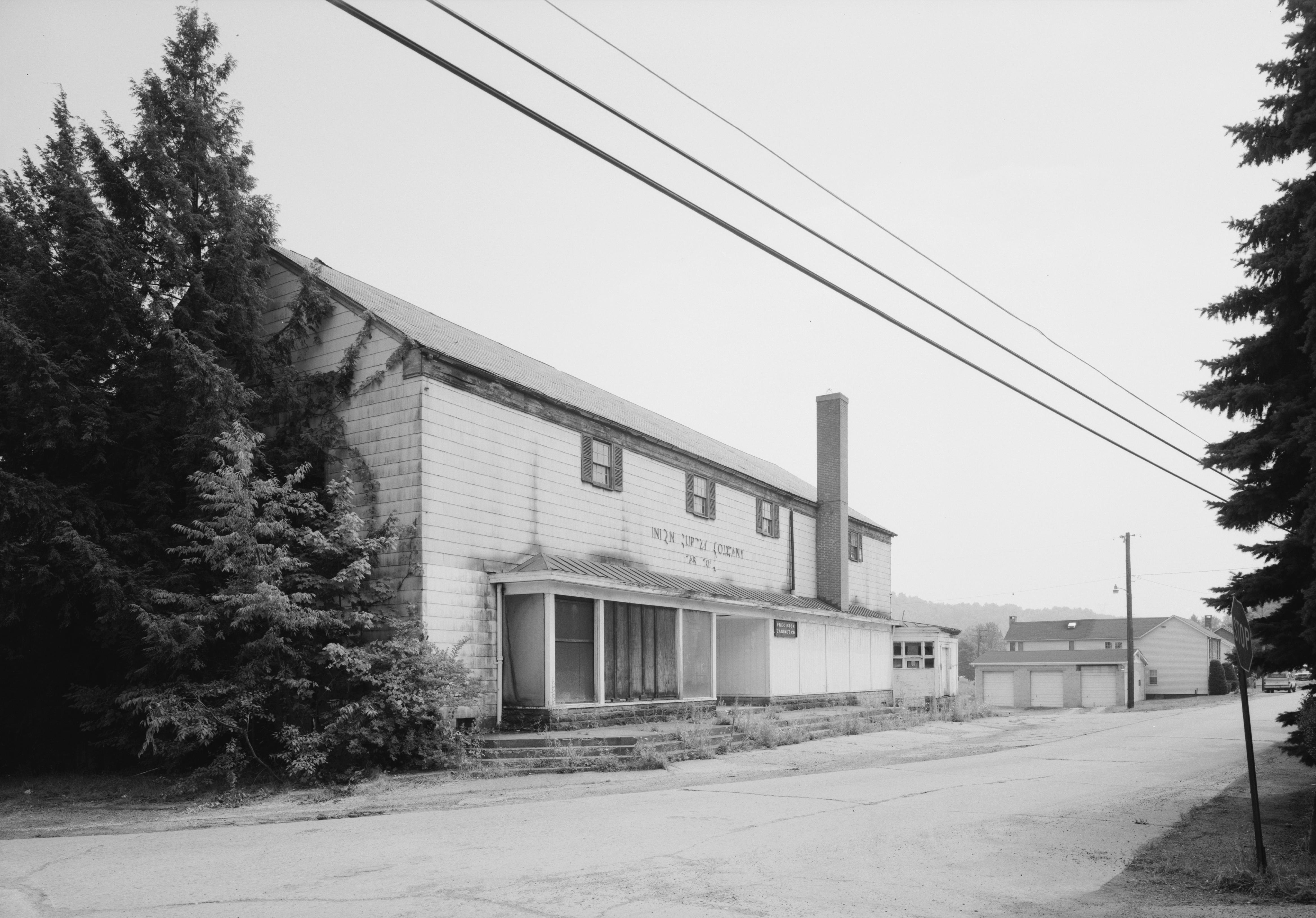 Front of the old company store in Star Junction, an unincorporated community in Perry Township, Fayette County, Pennsylvania, United States. Located at the corner of Church Street and Old Route 51 (now the back corner of the combined McDonalds-and-gas-station property), the store was part of the Star Junction Historic District, a historic district that is listed on the National Register of Historic Places.